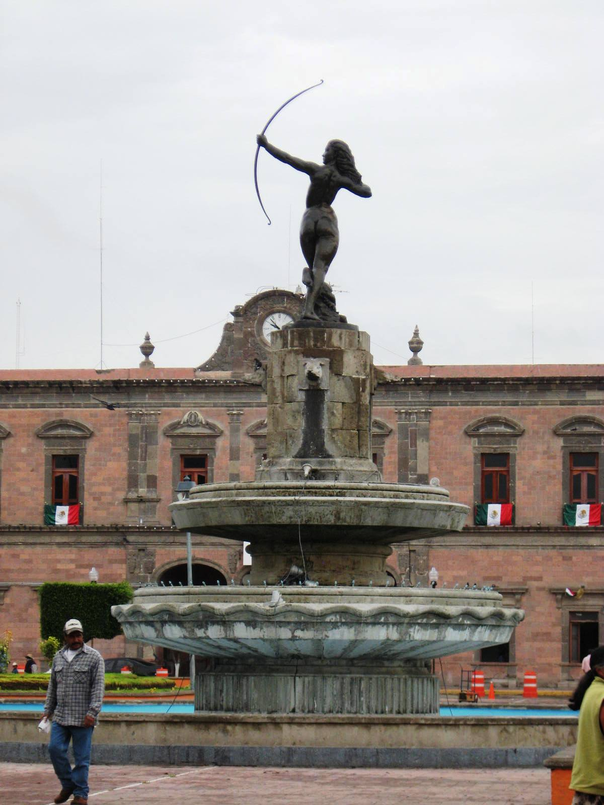 Close up of Diana statue and fountain in the main plaza of Ixmiquilpan, Hidalgo State, Mexico